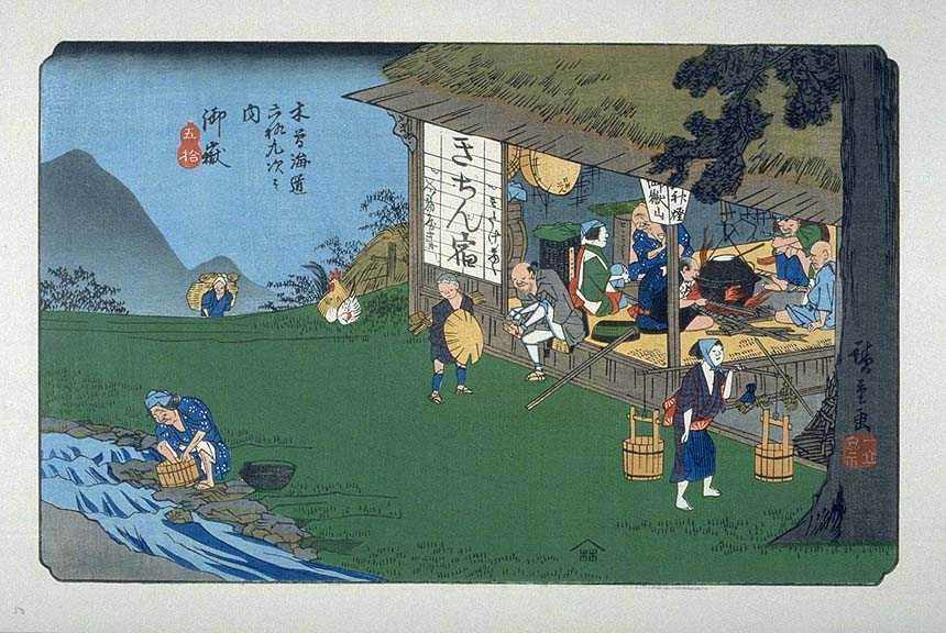 Mitake on the Kisokaido, ukiyo-e prints by Hiroshige